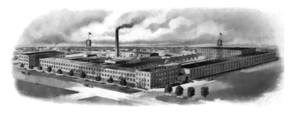 Circa 1918 illustration of the manufacturing plant of the Lufkin Rule Company in Saginaw, Michigan.